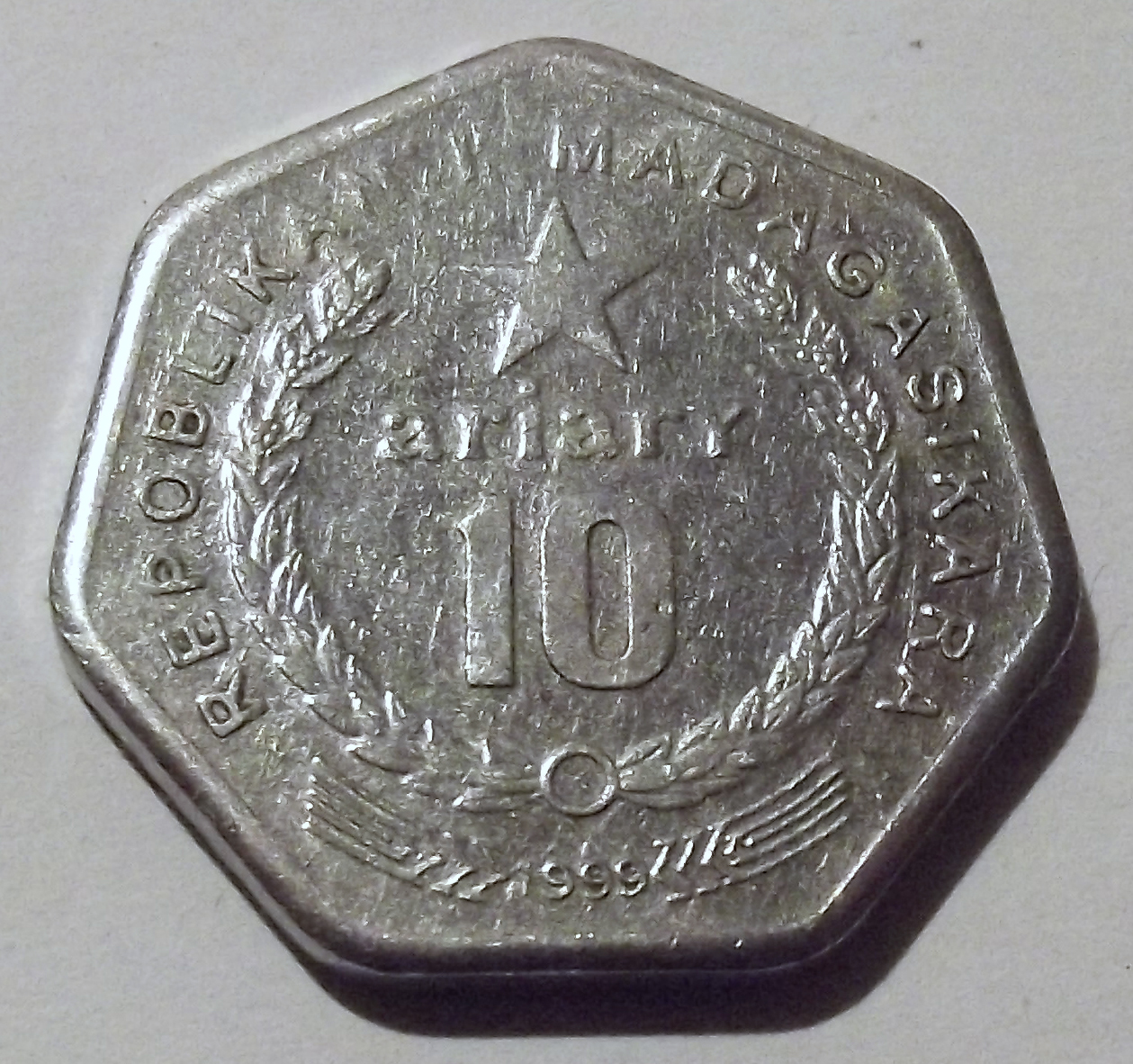 10 Madagascar Arial coin. The head side. With the big inflation and the introduction of banknotes of big nominal value, the coin has nearly no value and is practicaly not used any more.